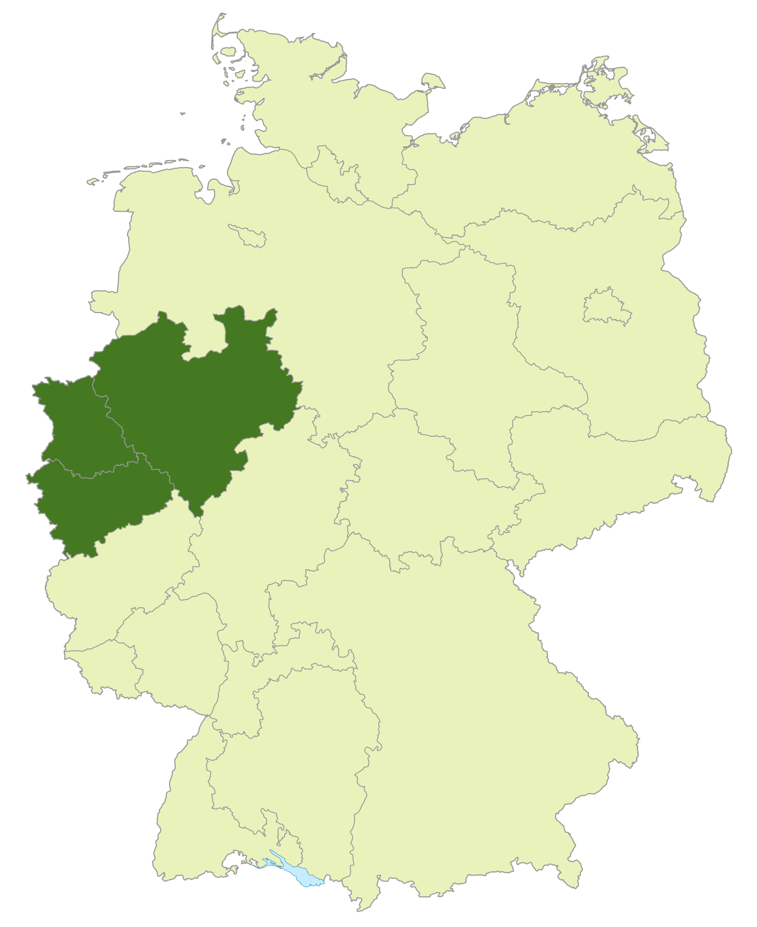 Map of regional soccer association of Westdeutschland, Germany